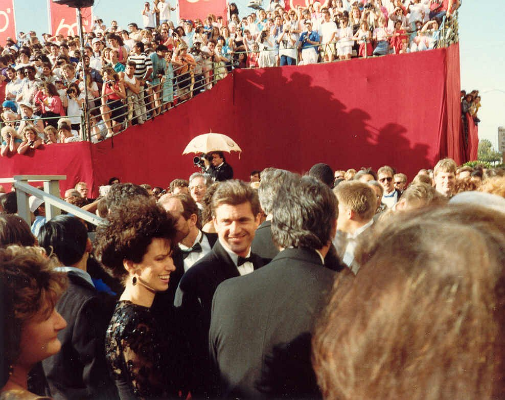 Photo taken at 60th Academy Awards 4/11/88. Permission granted to copy, publish or post but please credit "photo by Alan Light" if you can